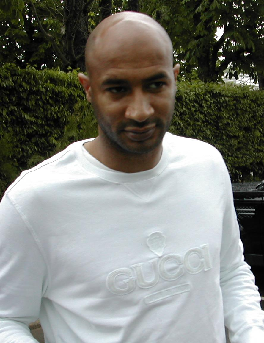 Sammy Traoré, the French and Malian soccer player from the Paris Saint-Germain.